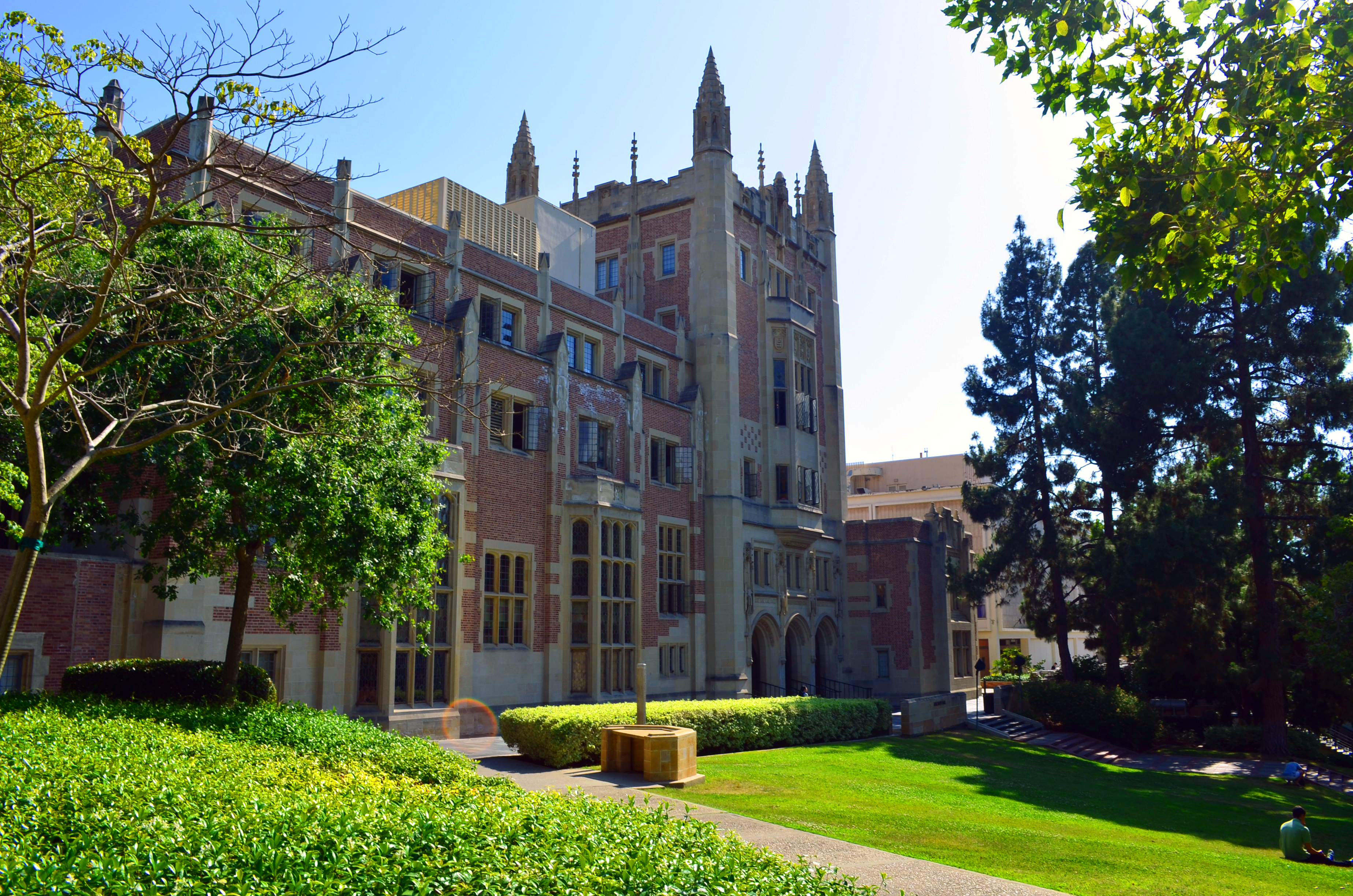 Kerckhoff Hall is the original student union building at UCLA. It is home to a coffeehouse and many student-run organizations, including the Daily Bruin, UCLA's newspaper